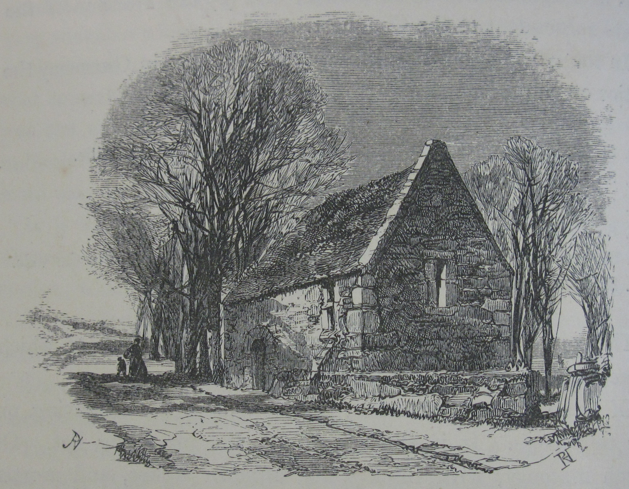 Illustration from The Channel Islands, 1862, David Thomas Ansted & Robert Gordon Latham - "Chapel of St. Apolline, Guernsey"